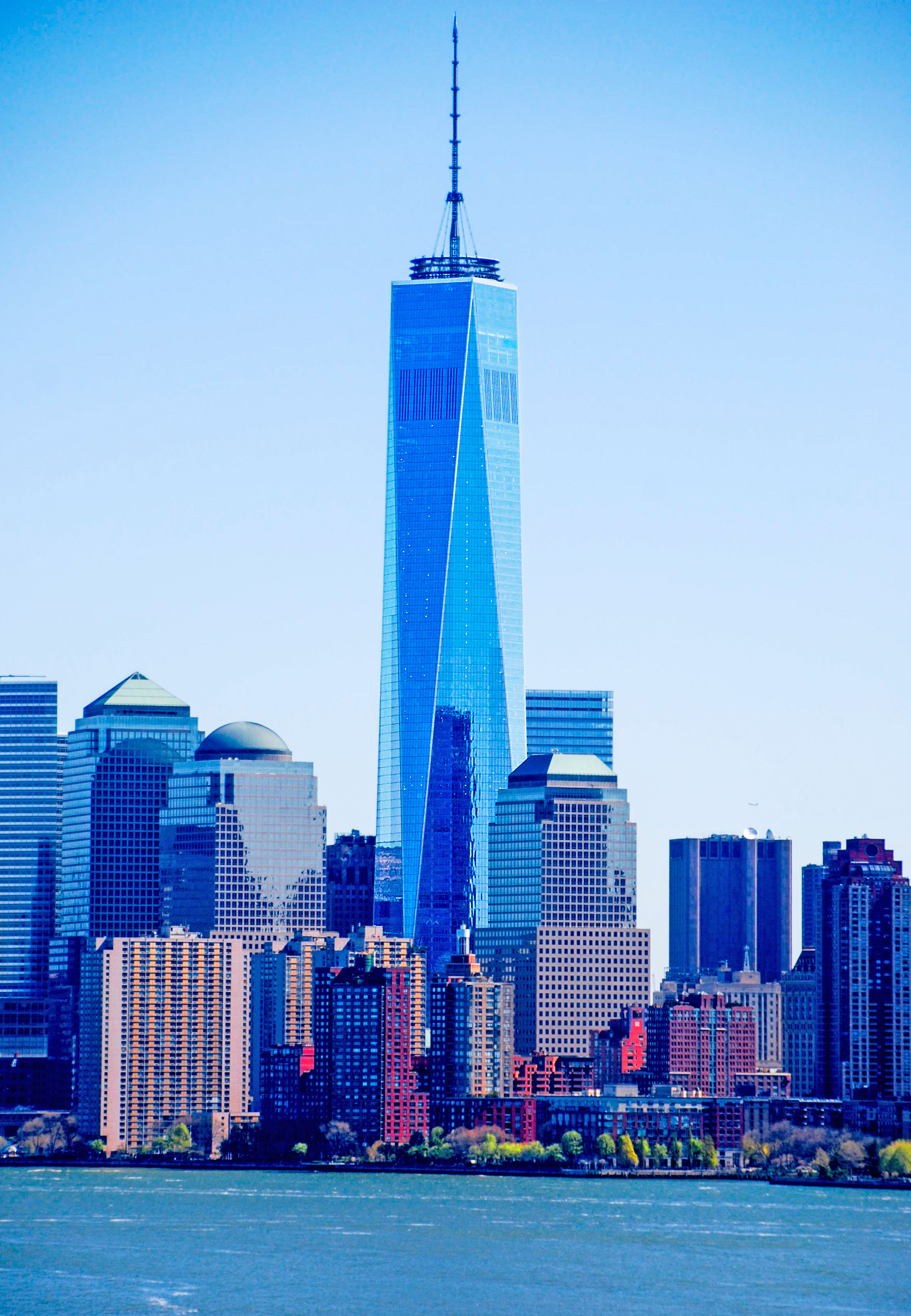 One World Trade Center in April 2016.